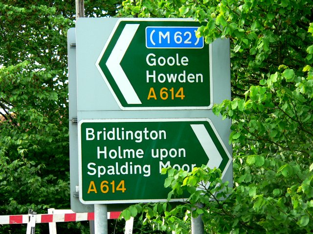 A614 at Bursea Lane Ends, north west of Bursea, East Riding of Yorkshire, England.